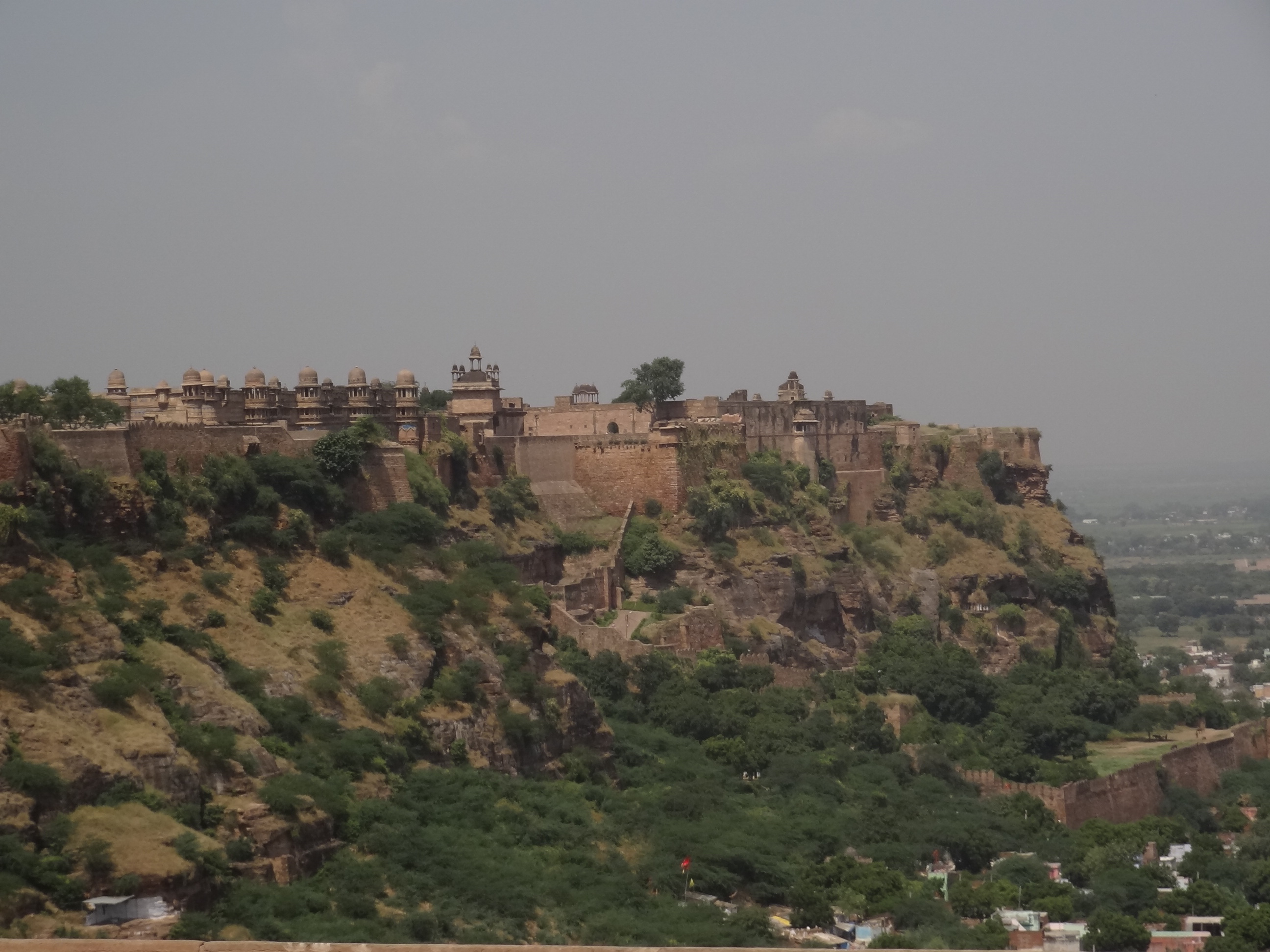 Gwalior Fort (wall and Burj)